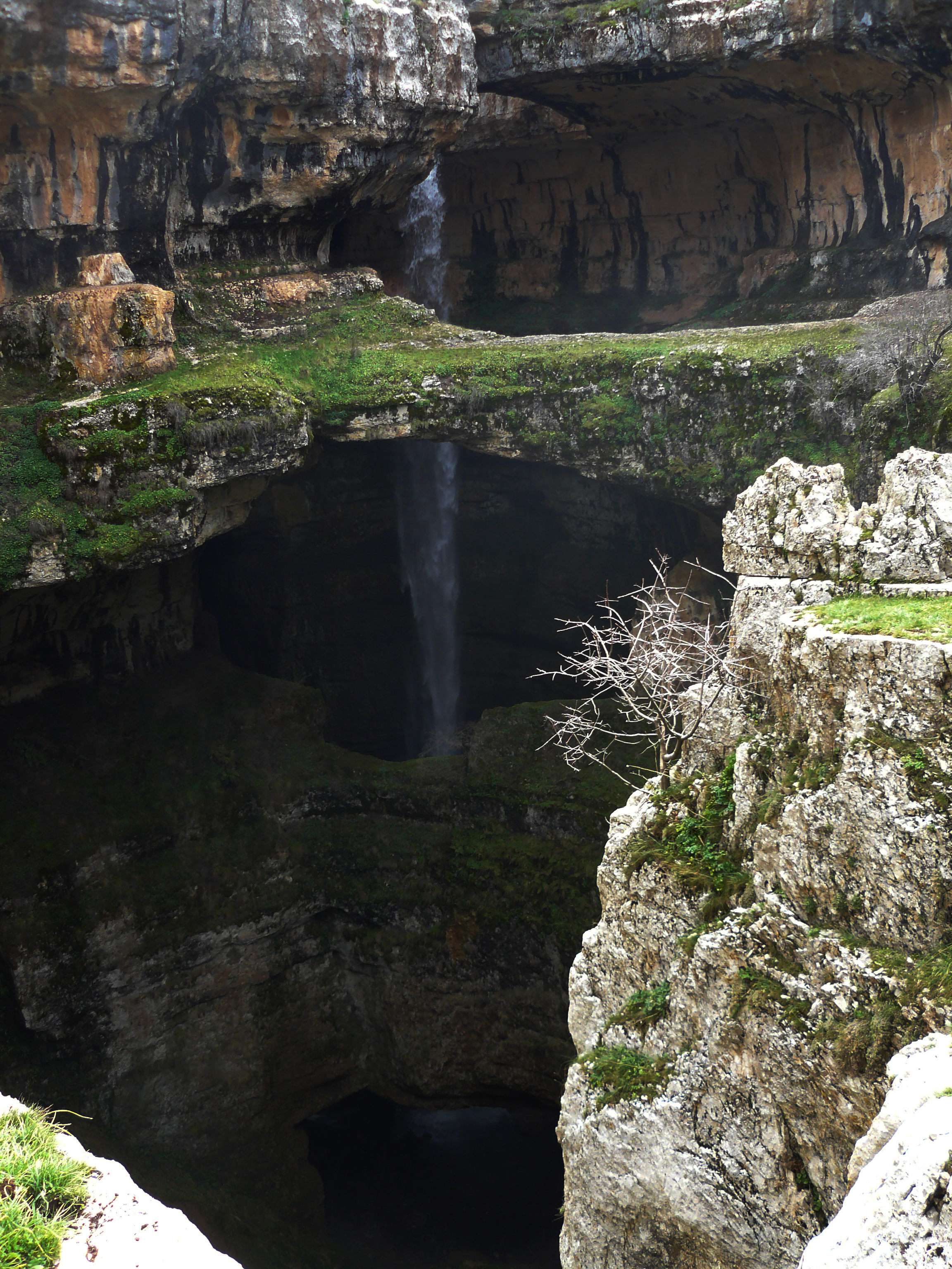 Baatara gorge in the Tannourin mountains of Lebanon